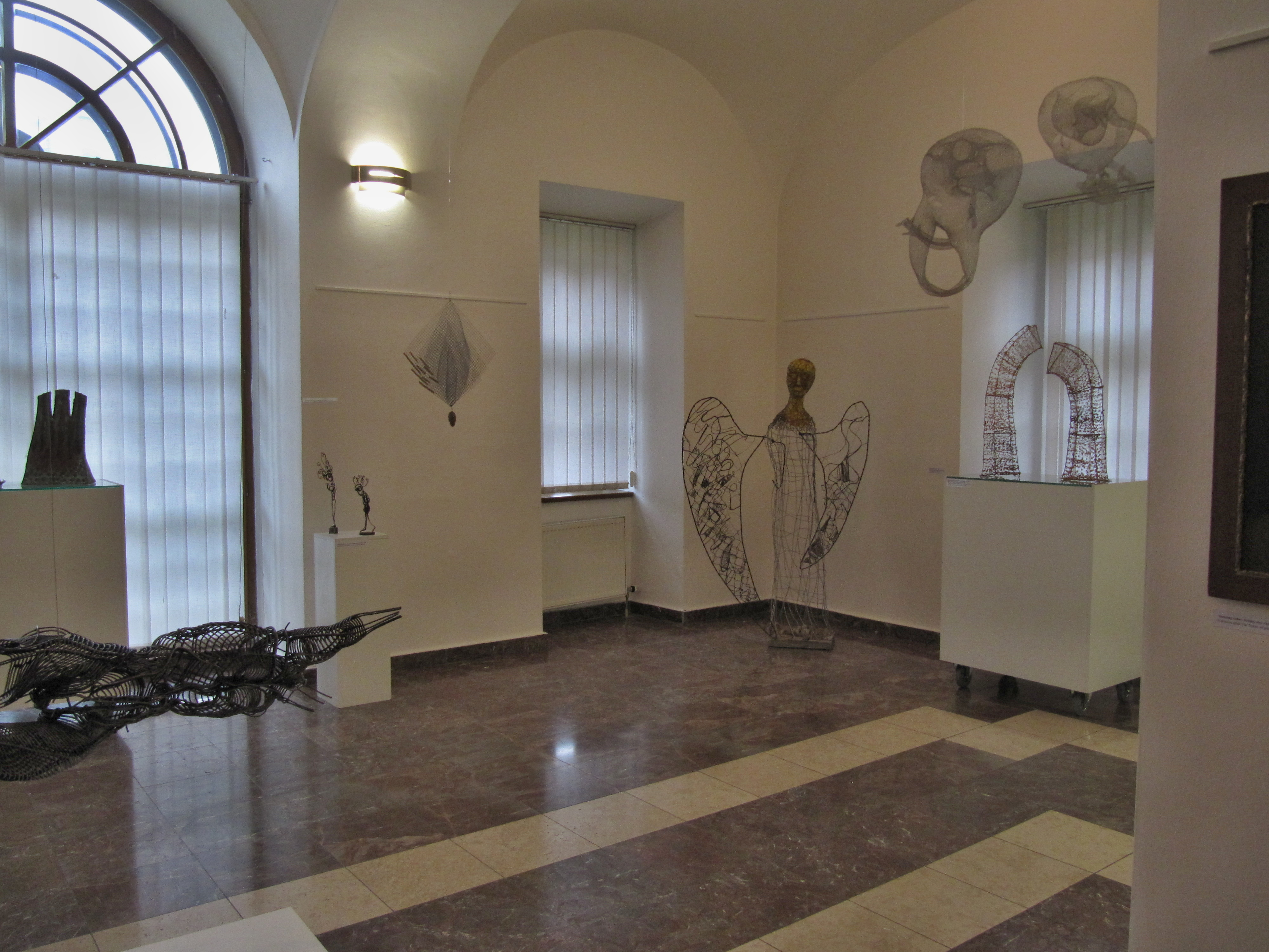 Žilina, Slovakia, Budatín Castle. Považské Museum, a permanent exhibition of tinkers' art. The only museum in the world dedicated entirely to the tinker trade.